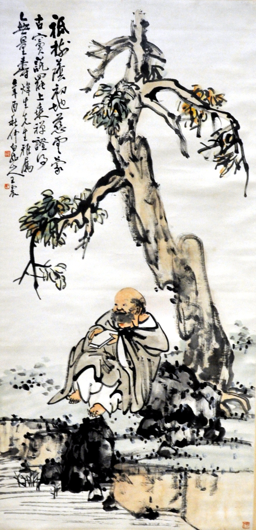 Budai under a pine tree; ink and paint on paper; Museum Rietberg, Zurich; donation of Charles A. Drenowatz; Inv. No. RCH 1027